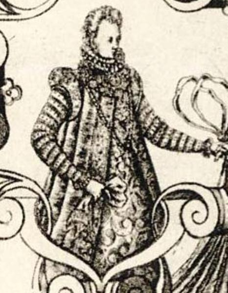 Princess Mary (Maria) of the Palatinate (1561-1589)